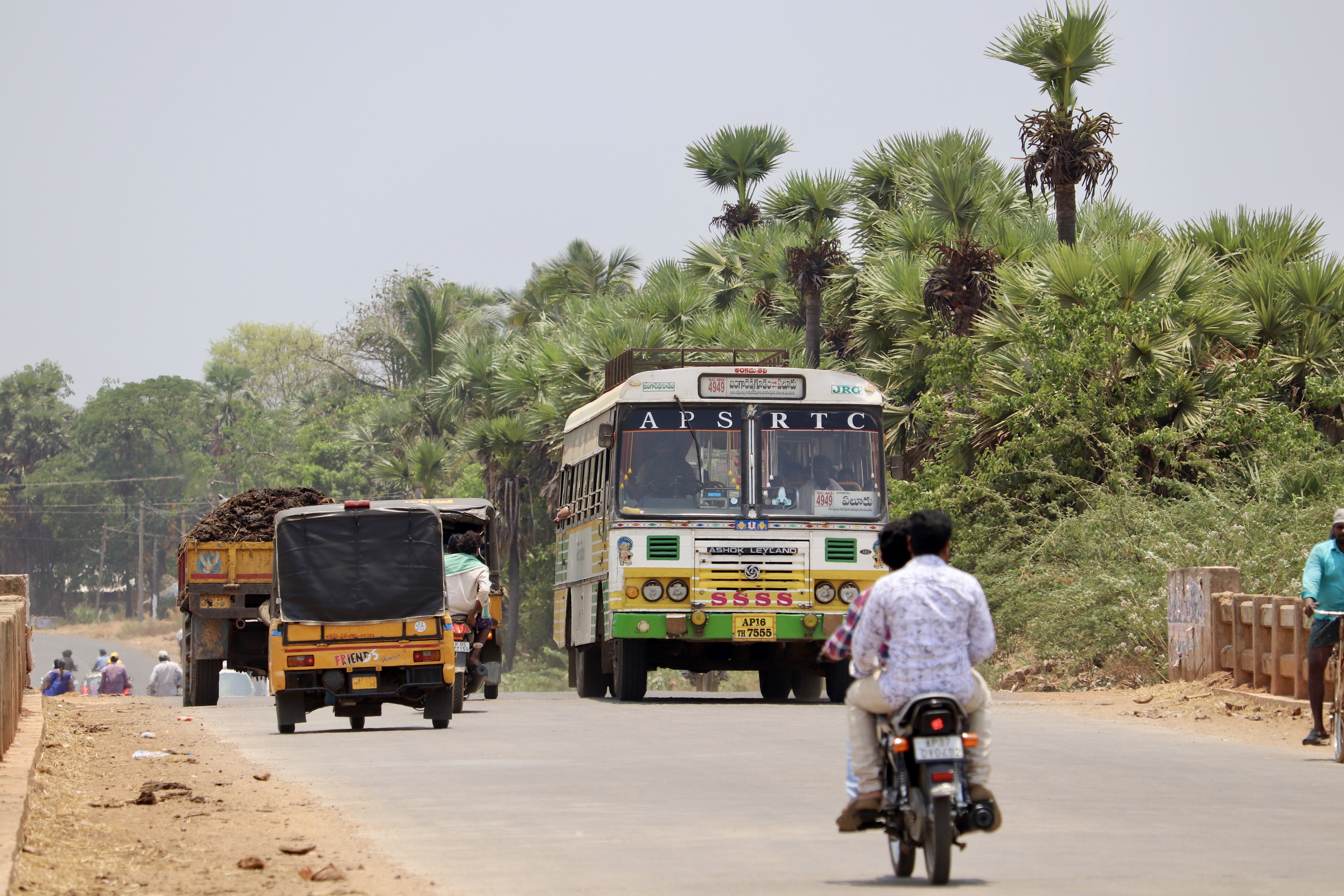 Eluru - Jangareddygudem APSRTC bus near Mundur